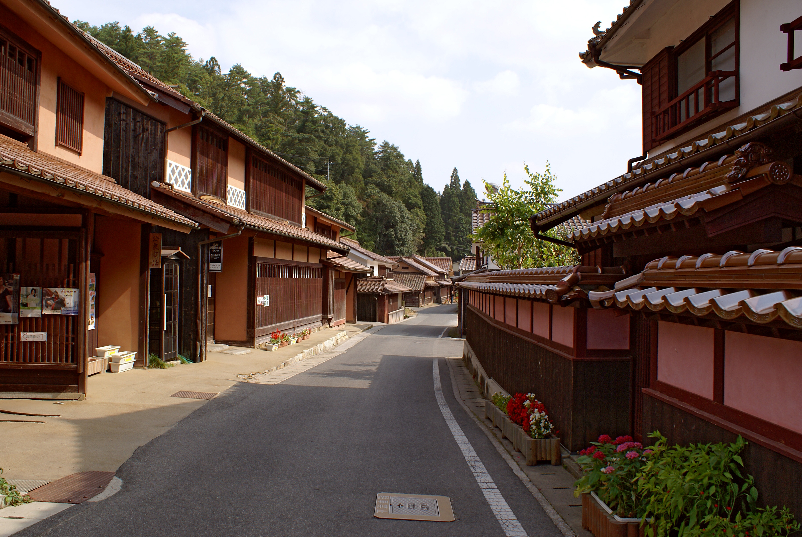 Fukiya, Takahashi, Okayama prefecture, Japan